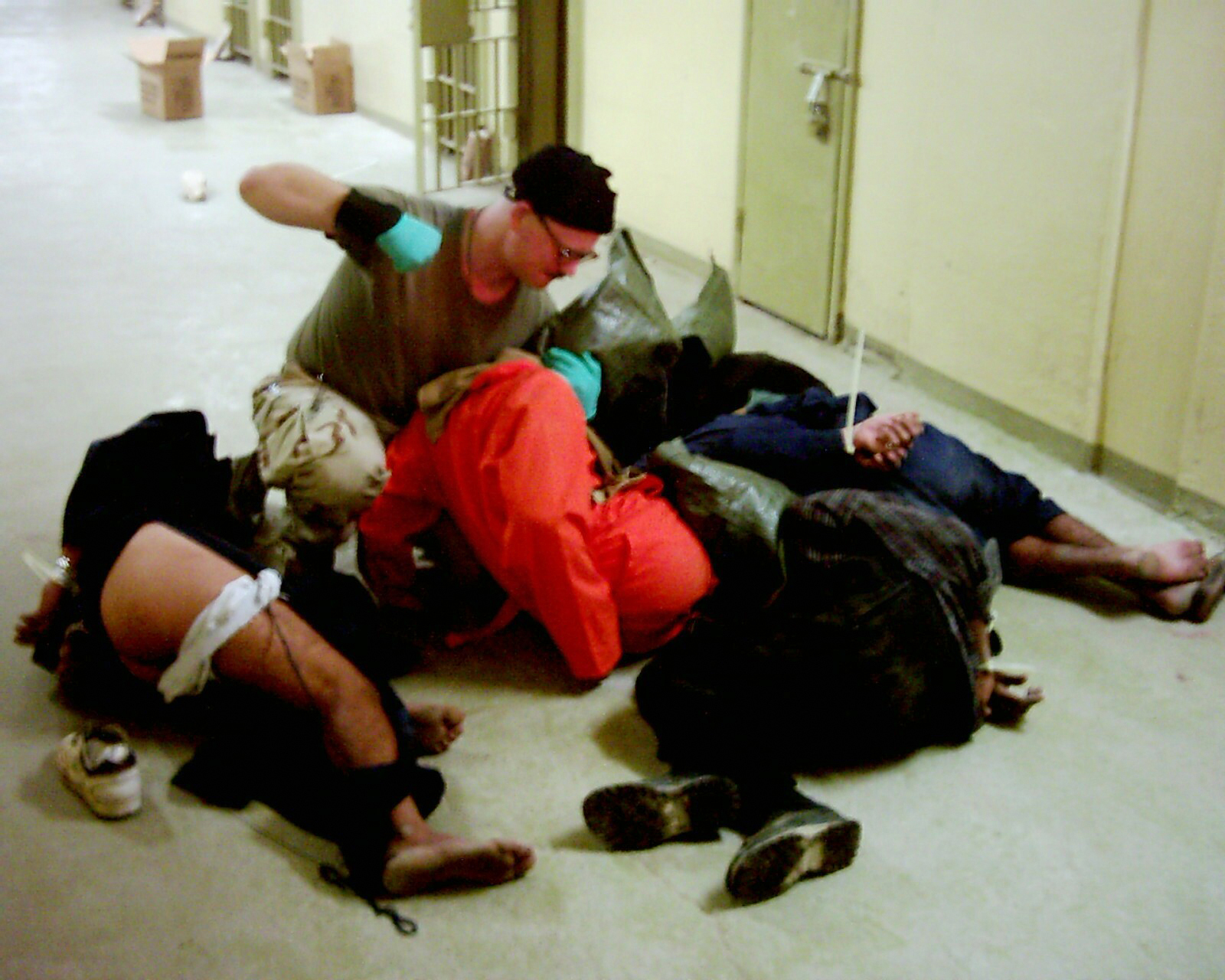 Abu Ghraib 35. 11:16 p.m., Nov. 7, 2003. CPL GRANER pulls a closed fist back, as he cradles a detainee in his left arm. [Detainee name deleted] is detainee with writing on leg wearing the white underwear. SOLDIER(S): CPL GRANER. All caption information is taken directly from CID materials. U.S. Army / Criminal Investigation Command (CID). Seized by the U.S. Government.